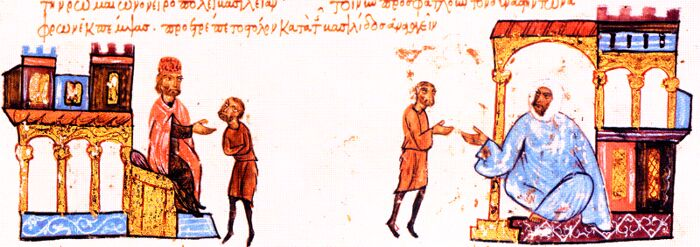 Negotiations between Symeon and Fatloun